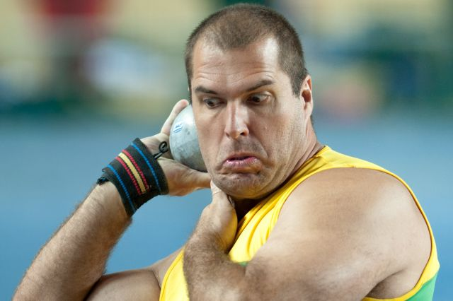 Burger Lambrechts during 2012 IAAF World Indoor Championships in Istanbul.